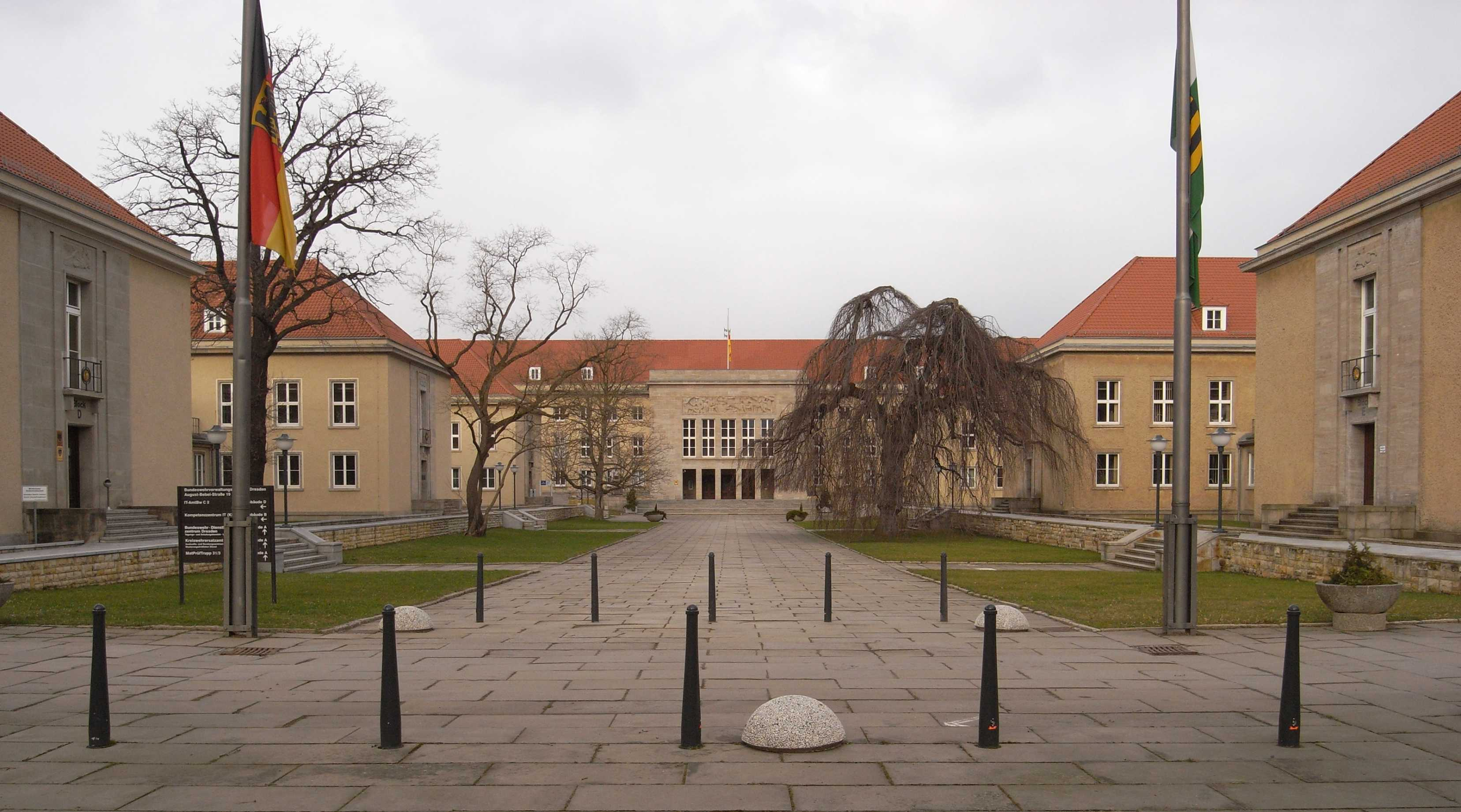 formerly Luftgaukommando IV Dresden, today Verteidigungsbezirkskommando 76 (Bundeswehr), main entrance (architect: Wilhelm Kreis, built 1935-1938)